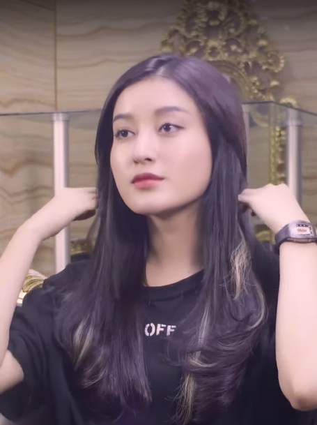 Nguyễn Trần Huyền My, screen capture from video of Vo Ba Thoai.